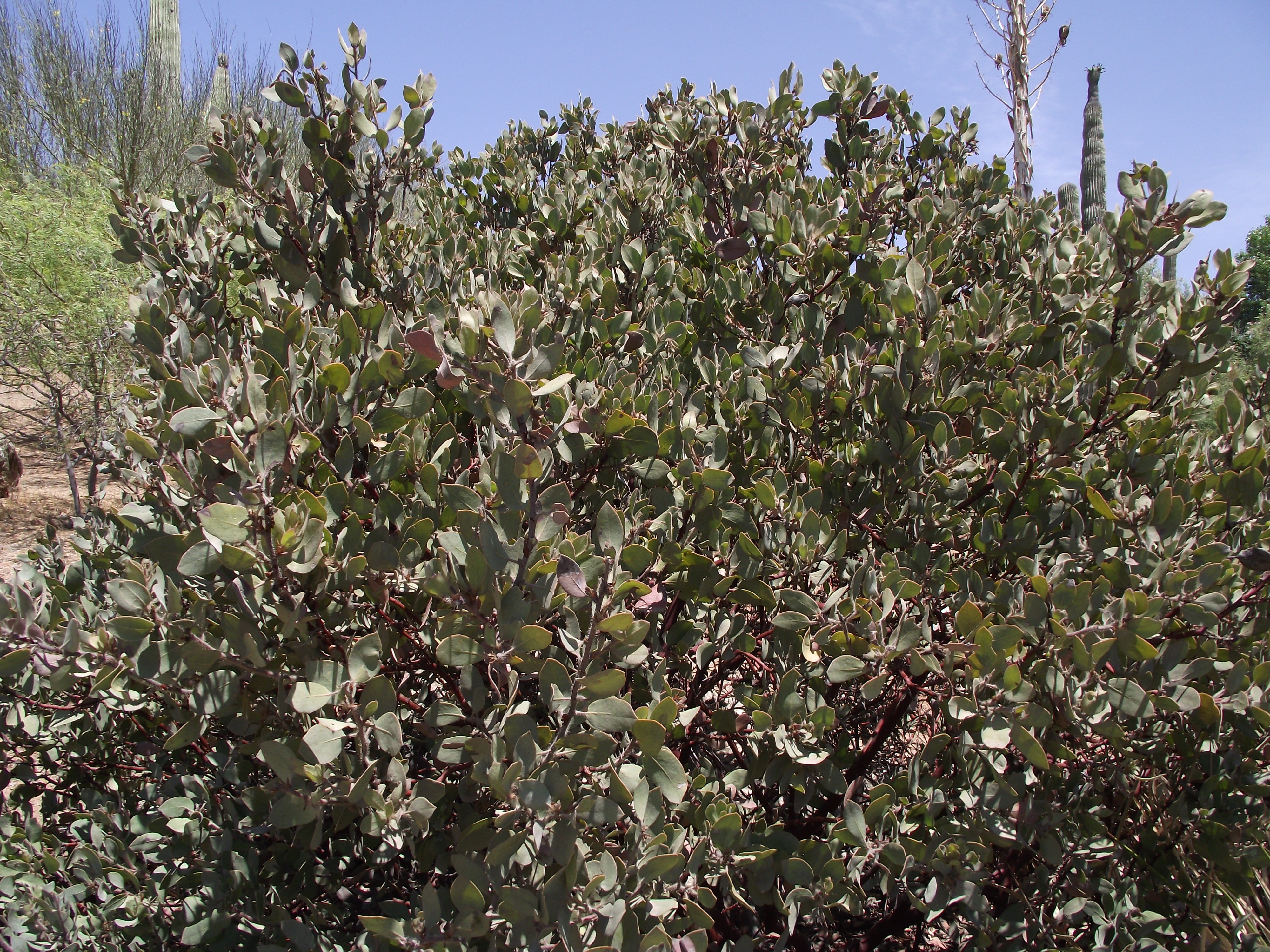 Arctostaphylos glandulosa ssp. crassifolia — Del Mar manzanita. At the San Diego Zoo Safari Park, Escondido, San Diego County, California, U.S.